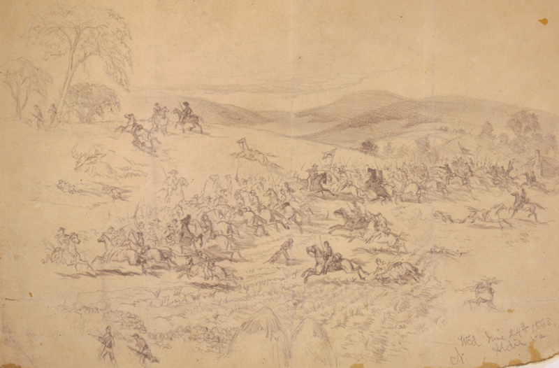 Cavalry fight near Aldie, Va. During the march to Gettysburg; the Union Cavalry; commanded by Gen. Pleasonton, the Confederate by J.E.B. Stuart